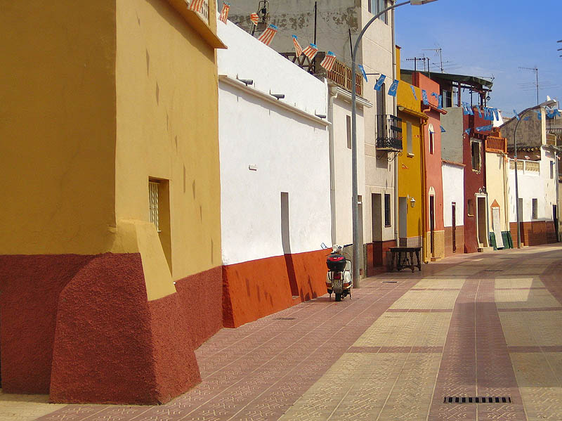 Els Poblets, Marina Alta, Valencia, Spain.